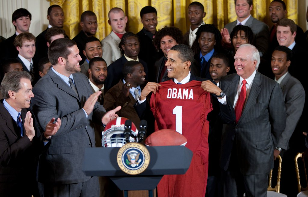 President Barack Obama is presented with a University of Alabama football jersey during a ceremony honoring the 2009 national champion Crimson Tide football team, in the East Room of the White House. Alabama head coach Nick Saban is present at left with offensive guard Mike Johnson and Alabama athletics director Mal Moore at right with other players standing at rear.